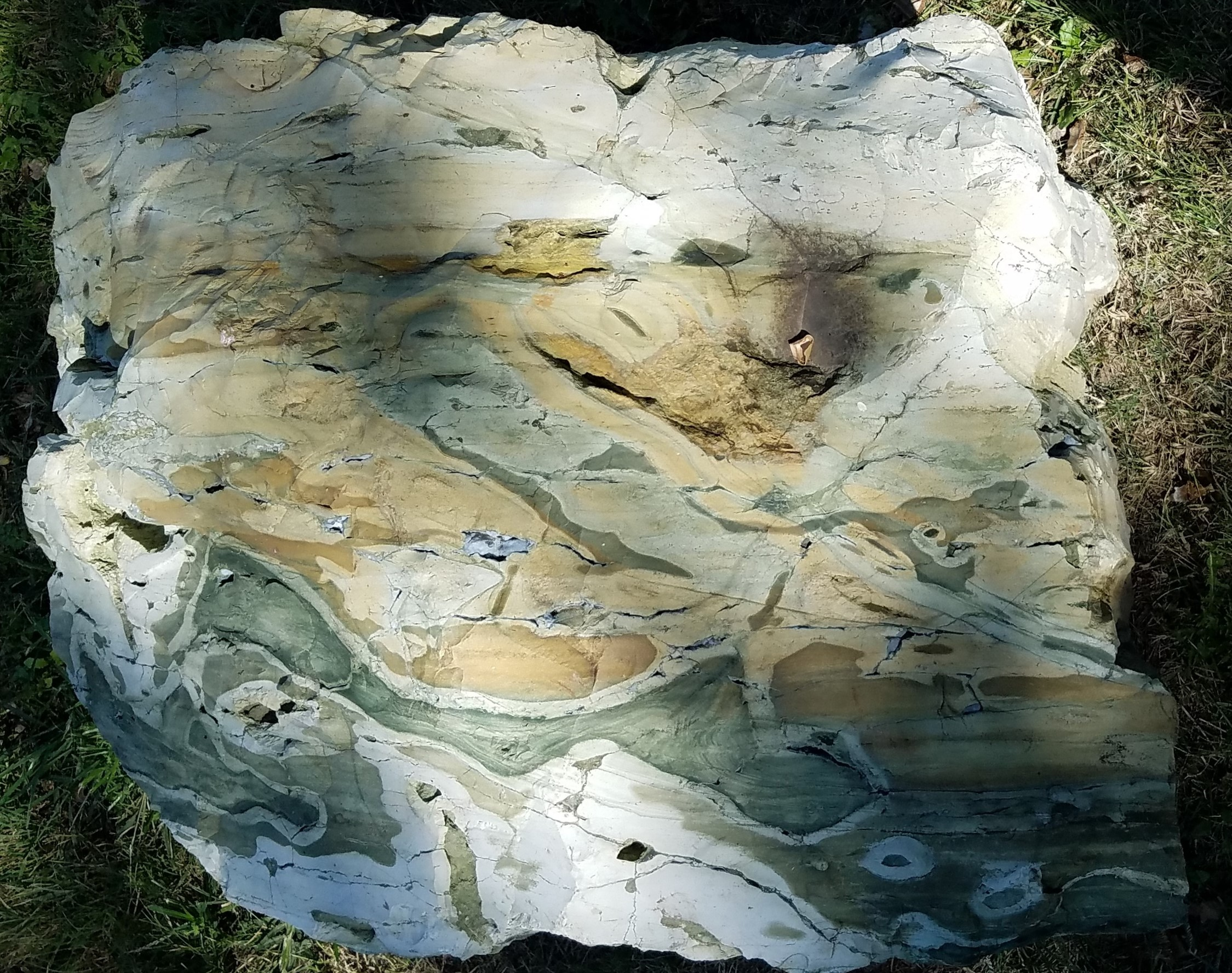 Niobrara Chalk, opalized, used as rip rap in Frontier Historical Park, Hays, Kansas.